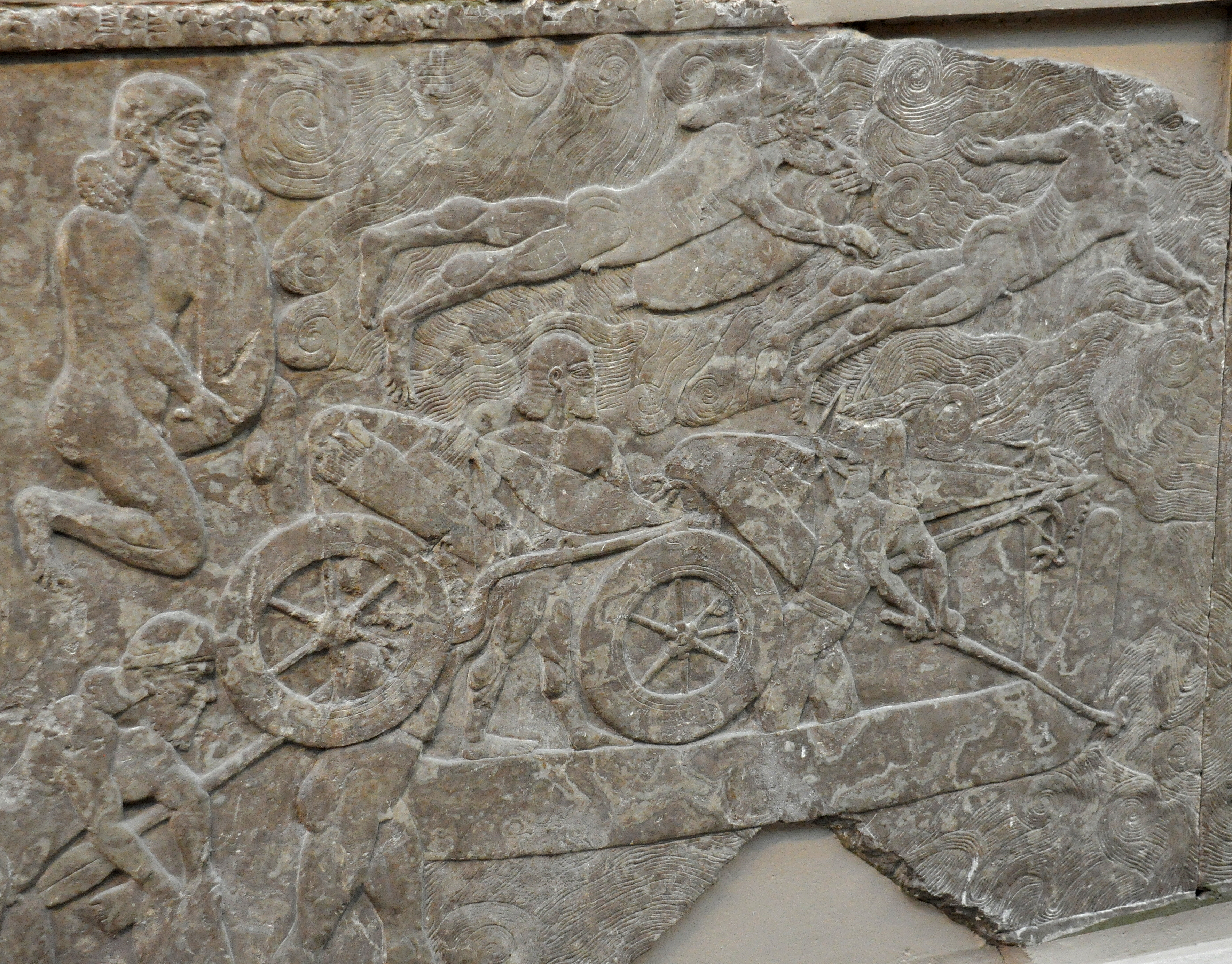 Assyrian army crosses a river, probably Euphrates. Some soldiers are swimming while others are loading two chariots on to a boat. Reign of Ashurnasirpal II, 865-860 BCE, from Room B, the North-West Palace at Nimrud (Kalhu), Mesopotamia, modenr-day Iraq, currently housed in the British Museum, London.